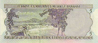 5 TL